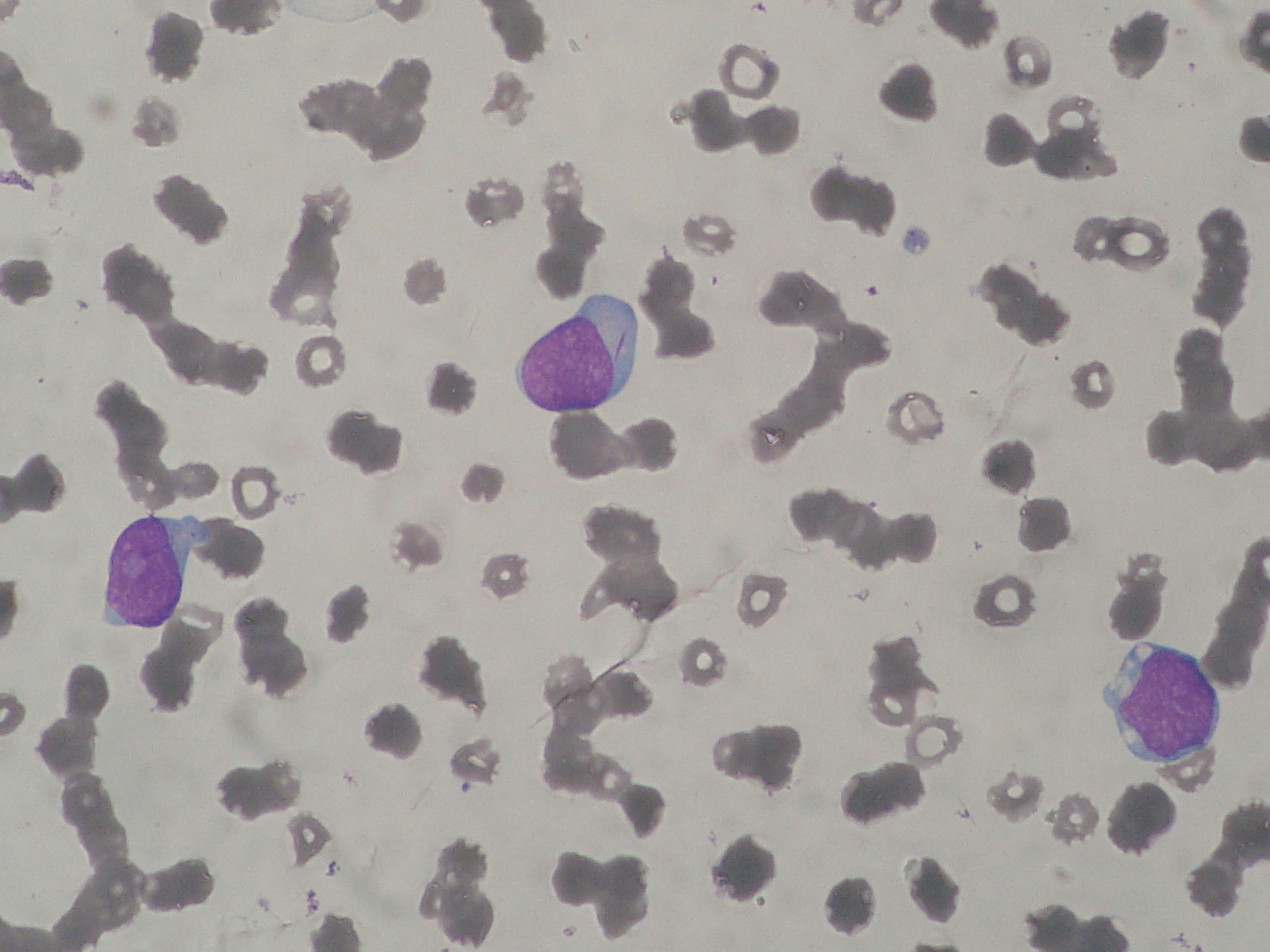 Myeloblast with Auer rod.